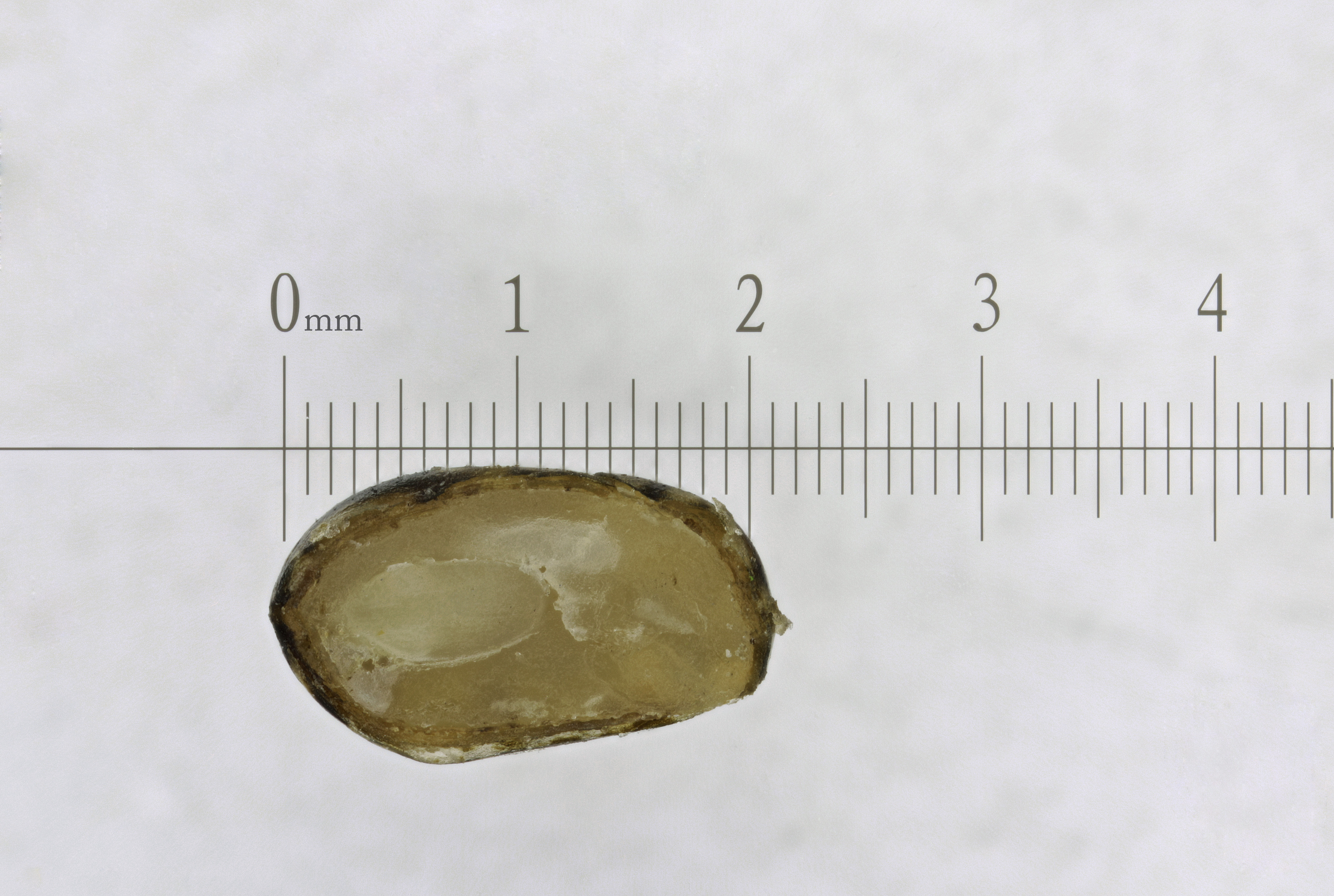 Profile of Chia seed sliced in half to show size and detail.